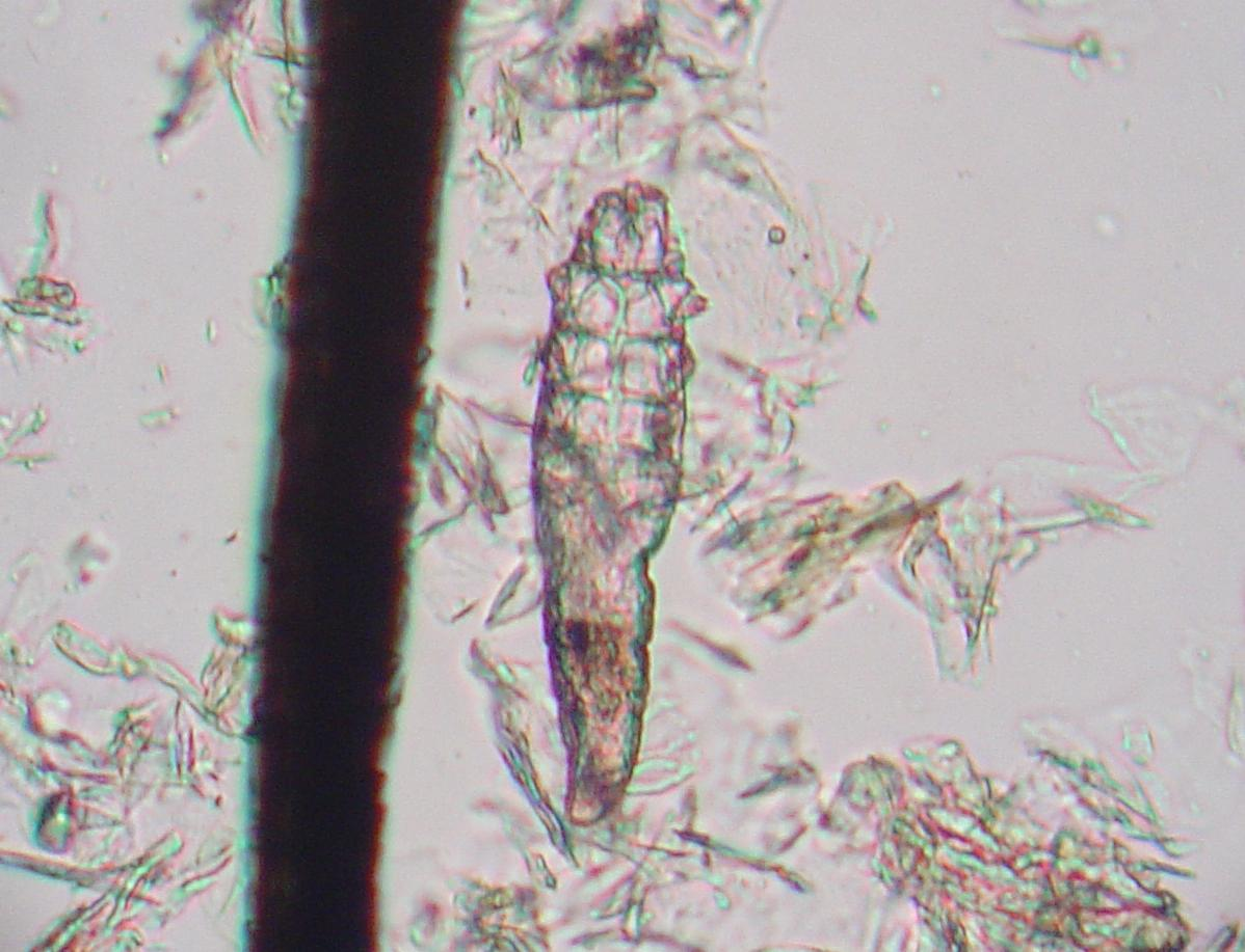 Photo of Demodex canis taken through a microscope at 400x magnification. Obtained from a skin scraping of a dog with demodecosis.